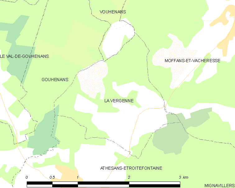 Map of French municipality